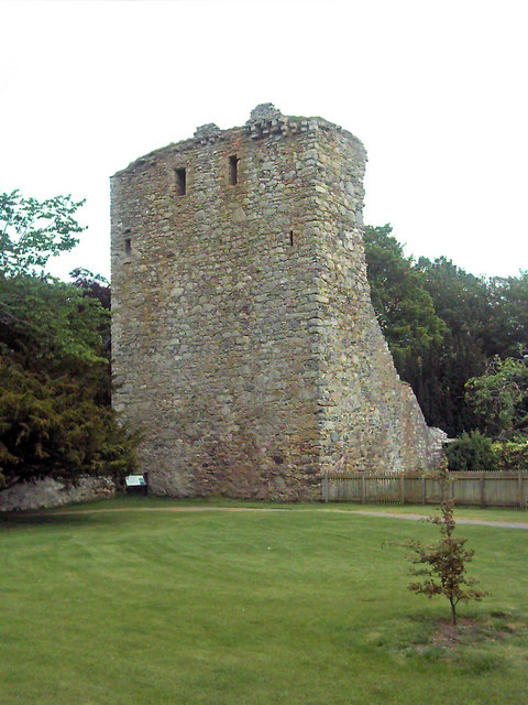 Drumin Castle Drumin Castle as viewed from a West South Westerly direction.